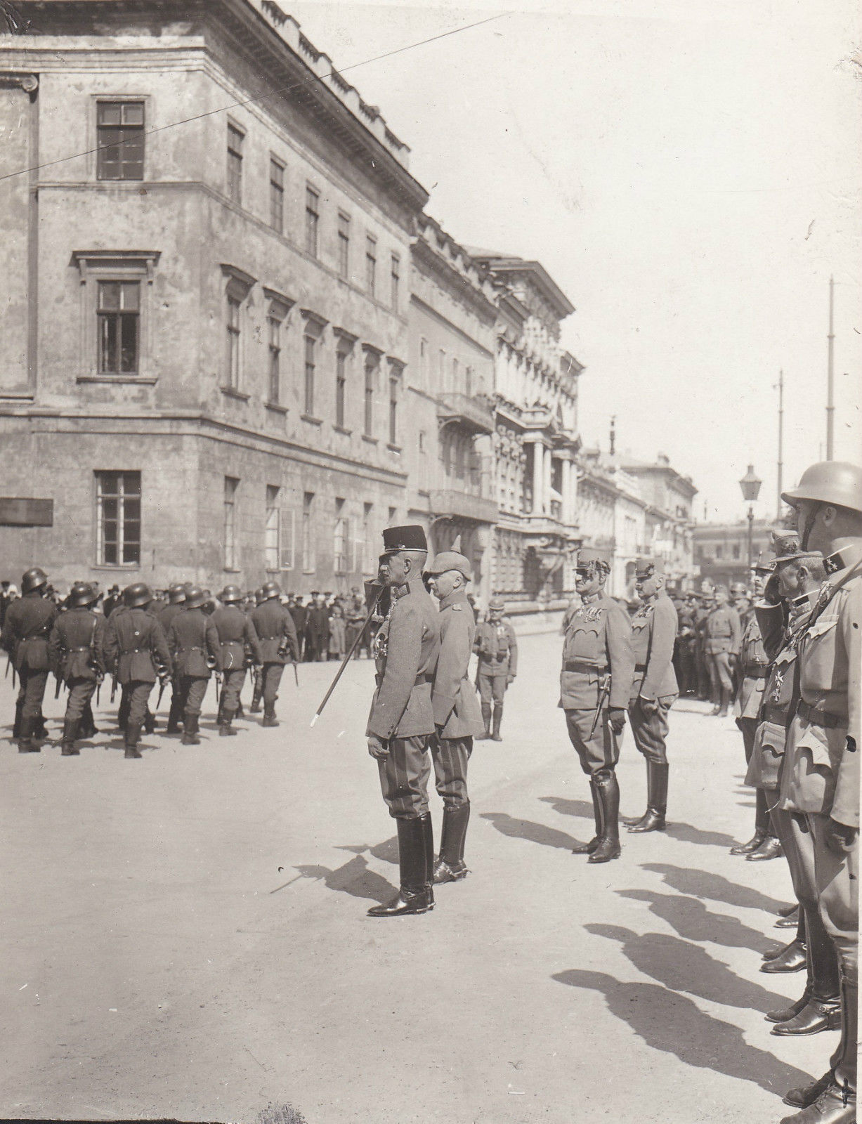 Feldmarschall der k.u.k. Armee Eduard von Böhm-Ermolli at military parade in occupated Odessa, Ukrainan People's Republic, summer 1918, Eastern Front of WWI